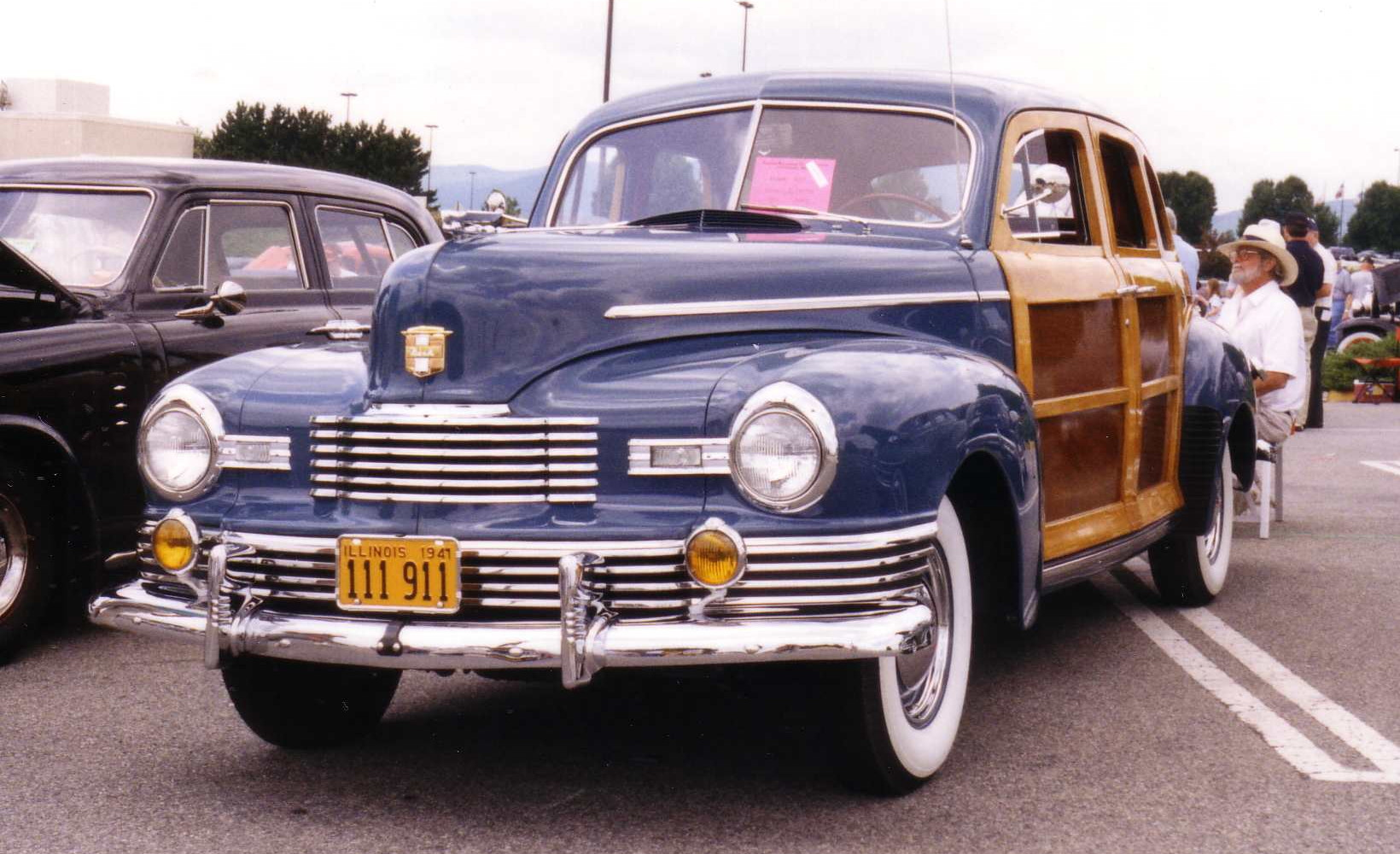 1947 Nash Suburban Ambassador, "wodie" four-door Slipstream sedan. Front view.